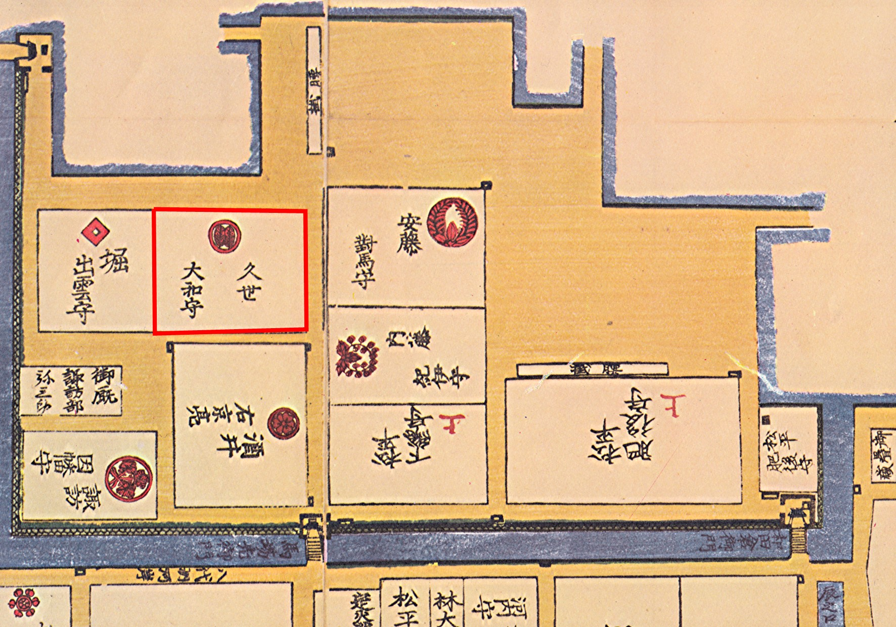 Residence of Kuze clan at Edo 2